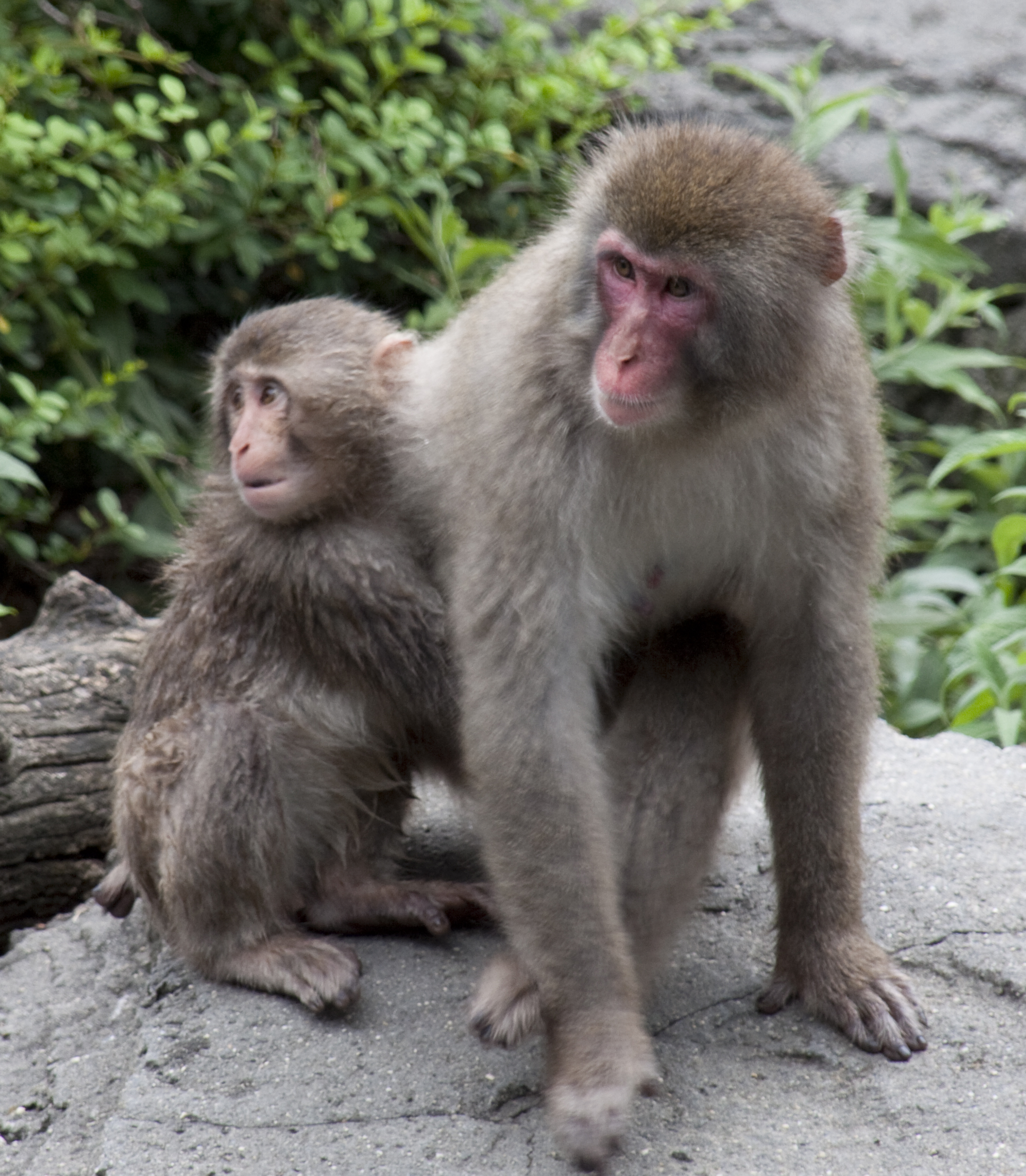 Two Snow Monkey or Japanese Macaque